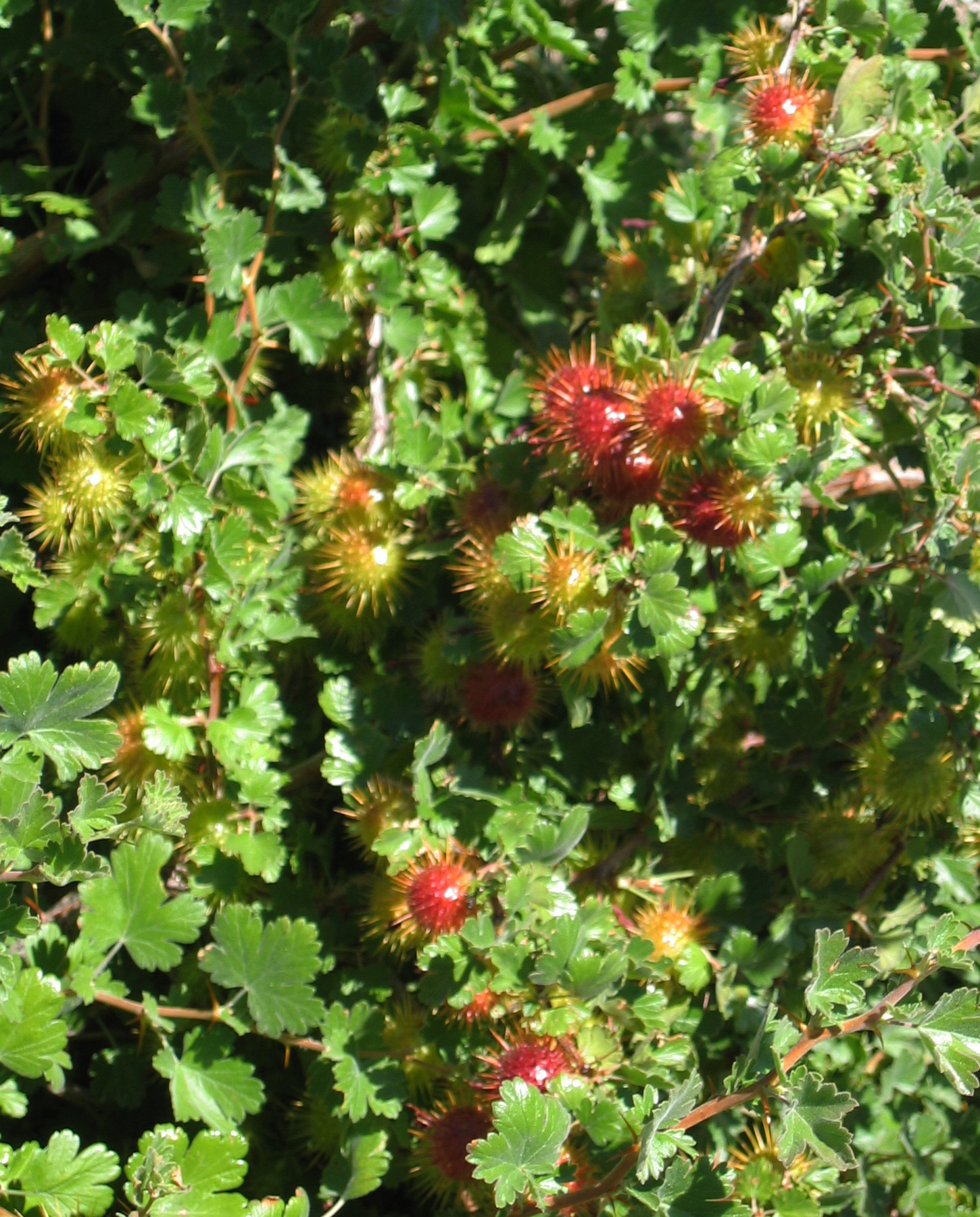 Sierra gooseberry (Ribes roezlii) — showing the large, very spiny fruits. Along Bubbs Creek below Junction meadow, in the John Muir Wilderness (Sierra Nevada), in Kings Canyon National Park, California.